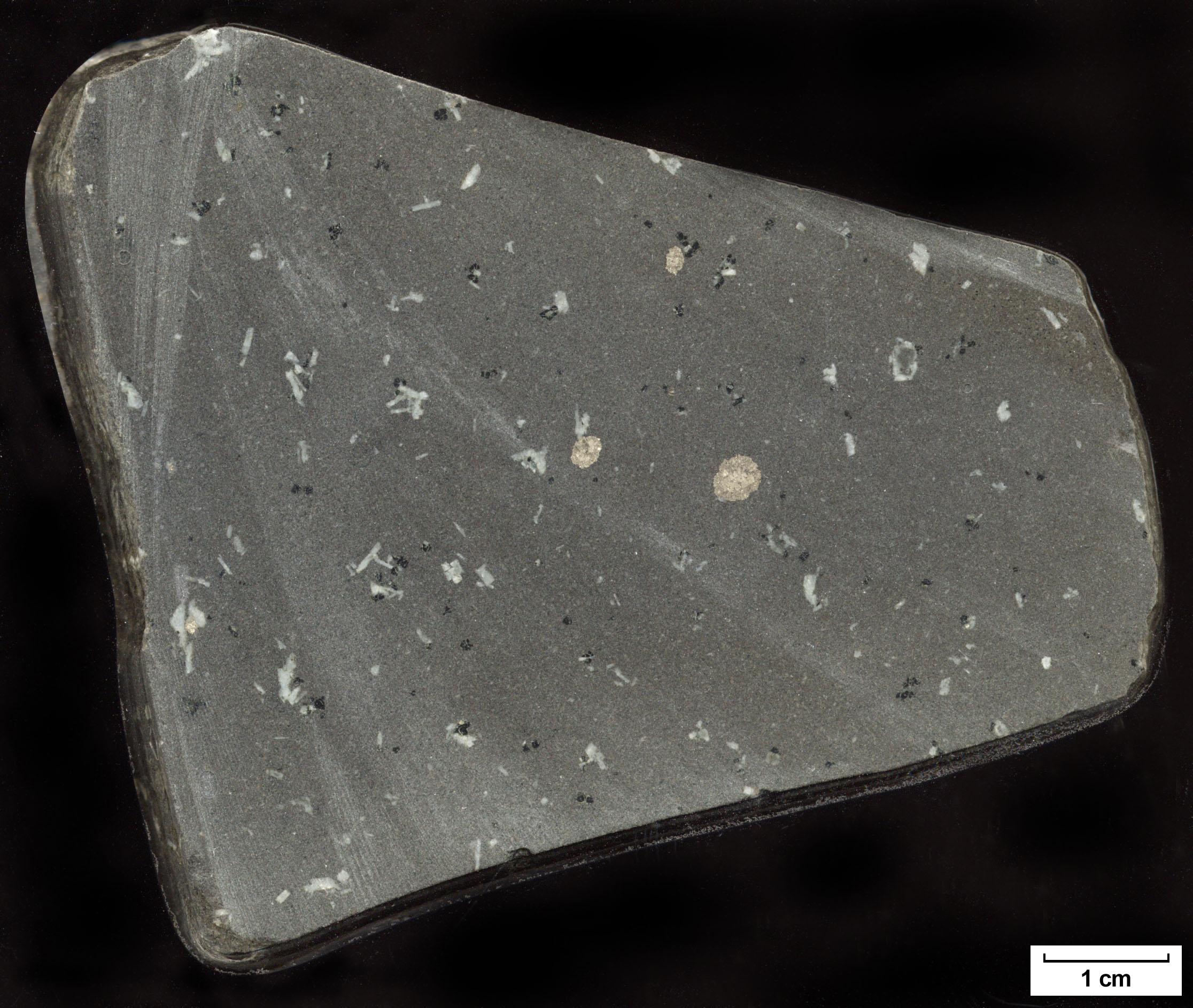 Bedrock sample from a UGSG drill core at Western Cape Cod, Massachusetts. An olivine-plagioclase phyric basalt, sample 36MW1041 contains plagioclase (60%), clinopyroxene (25%), chlorite (8%), and oxides (7%). Tabular plagioclase phenocrysts reach 2.5 mm. All olivine has been replaced by chlorite. The matrix, composed of plagioclase, clinopyroxene, chloritized olivine, and oxides exhibits a felty texture. Olivine also occurred as phenocrysts up to 0.6 mm long. Oxides show anhedral growth rims, suggesting a second growth episode, possibly during alteration of other minerals.